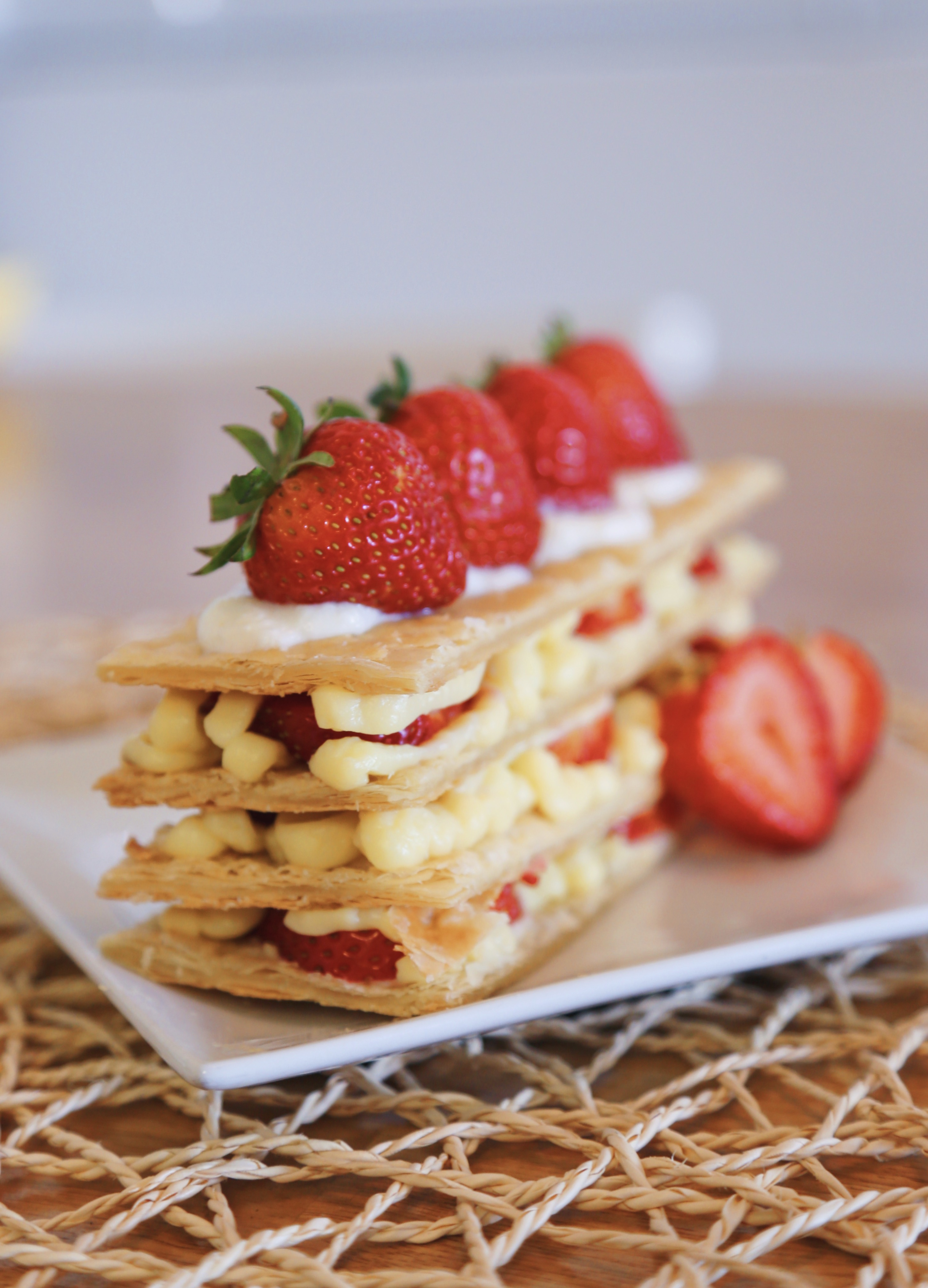 Homemade mille-feuille, using traditional techniques